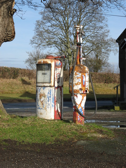 Two Gallons Please, near to Pentreheyling, Shropshire, Great Britain. Old petrol pump standing to attention,outside the Blue Bell Hotel.